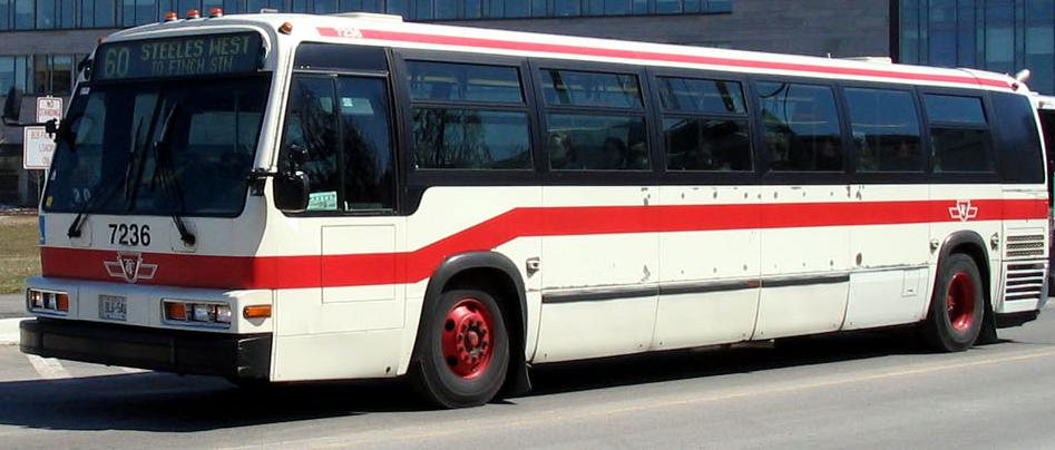 Toronto Transit Commission transit bus